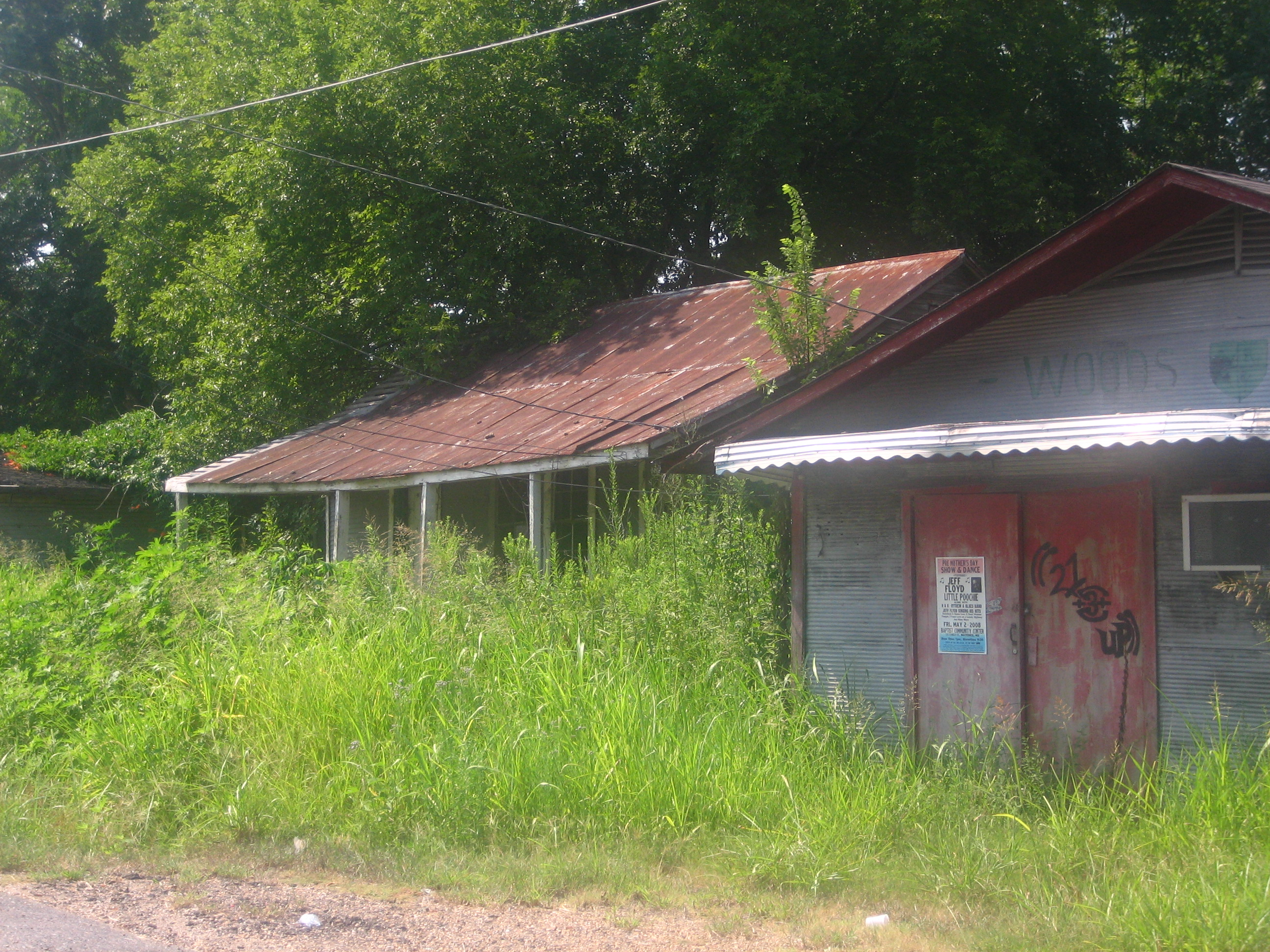 Abandoned buildings, Waterproof, Louisiana.